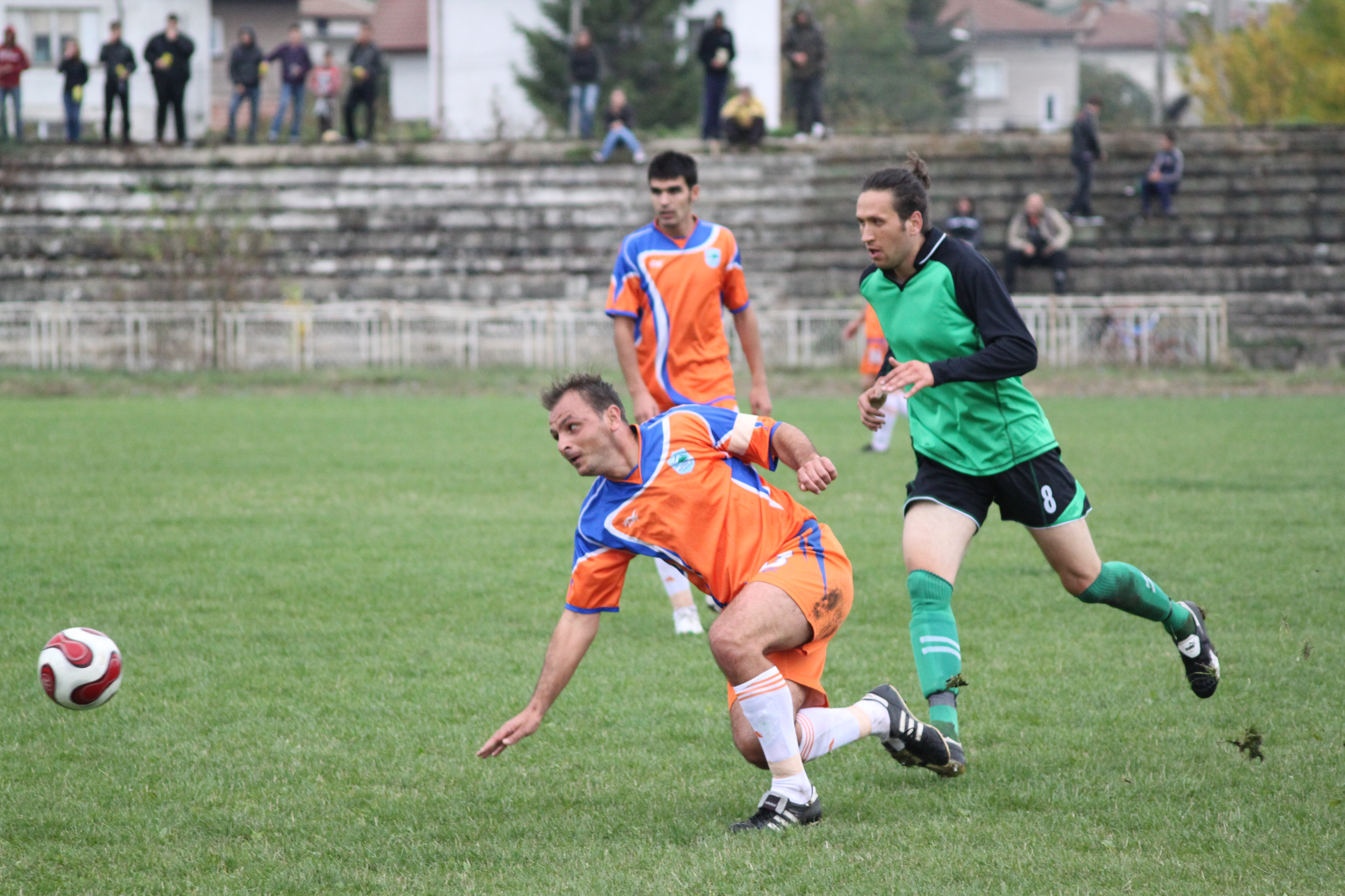 Rilski sportist - FC Dragoman